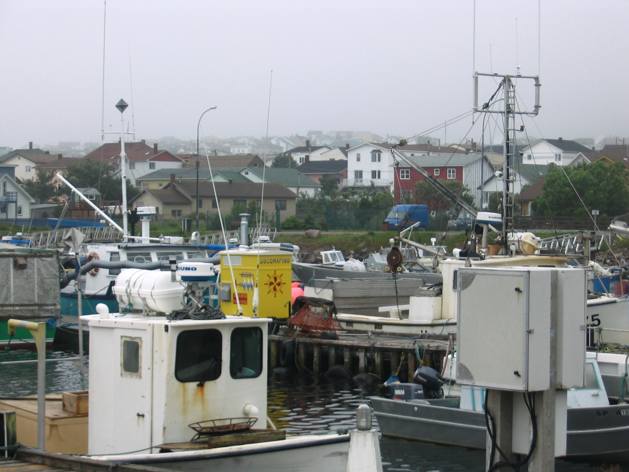 Saint-Pierre harbor Saint-Pierre and Miquelon.